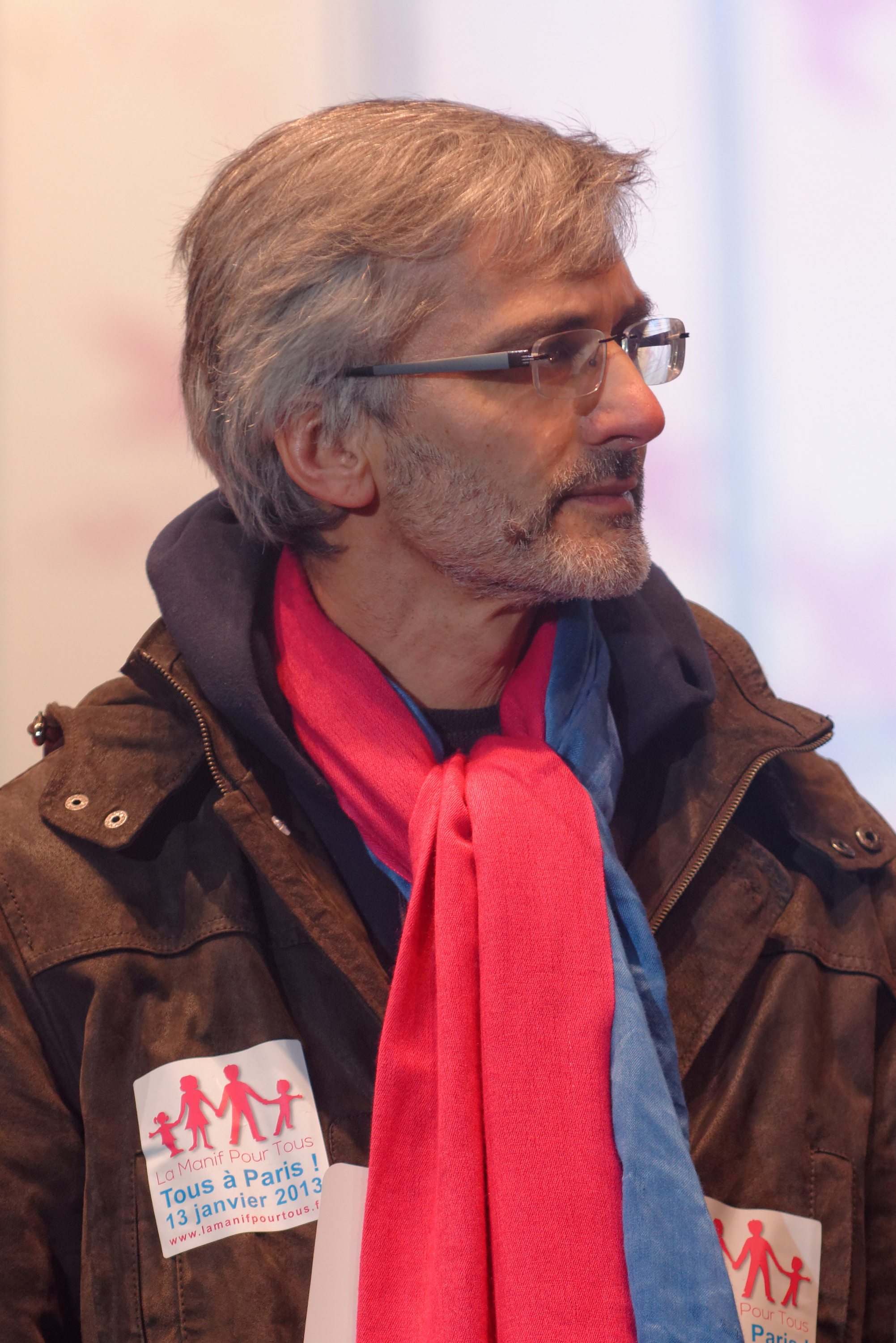 Tugdual Derville on the podium during the demonstration against same-sex marriage in Paris on 13 January 2013 (“Manif pour tous”).